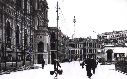 (The photographer is believed to be deceased since image was taken in the 1800s, Image from Book old Hong Kong by Trea Wiltshire)